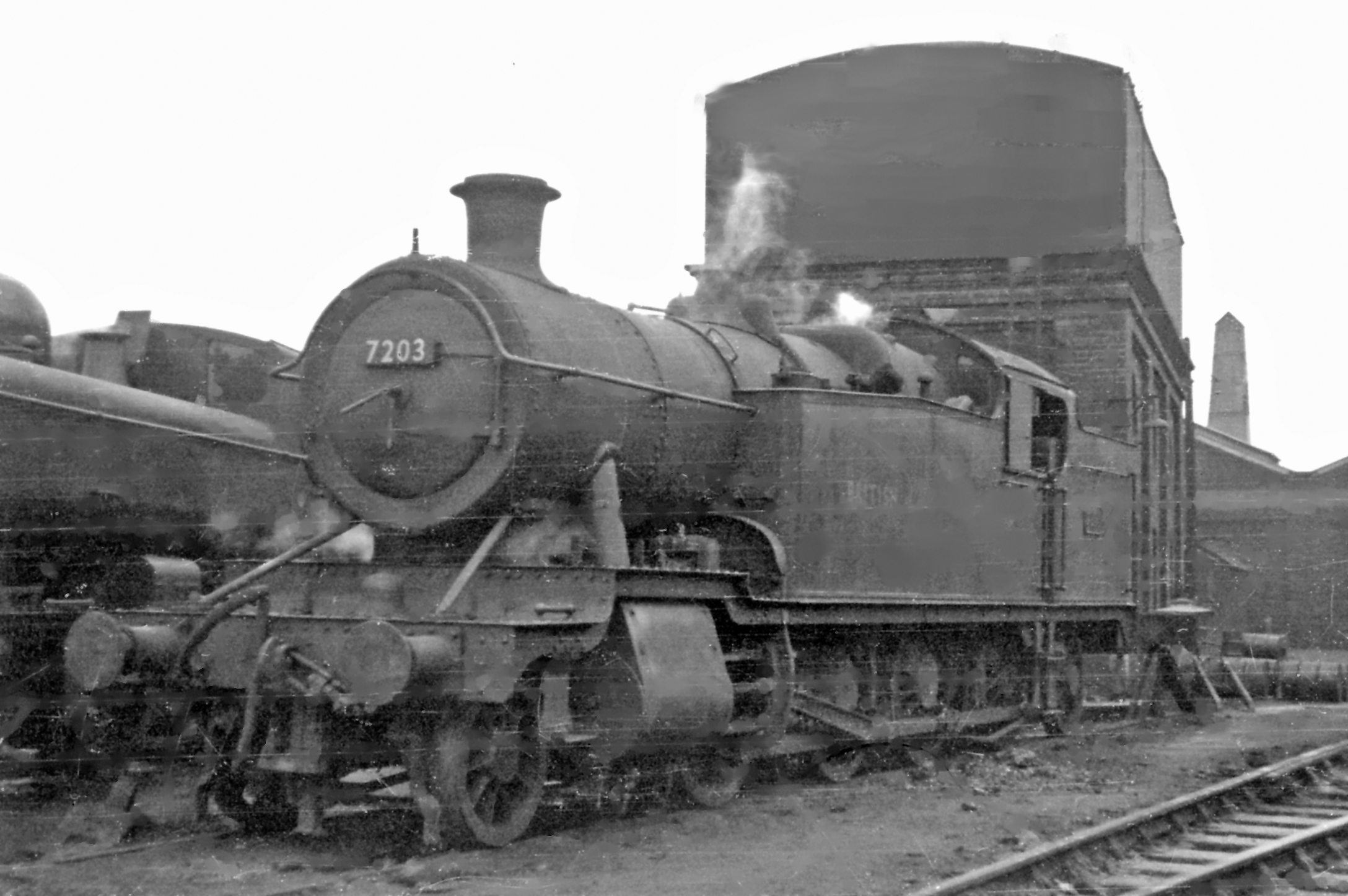 Ex-GWR 2-8-2T at Pontypool Road Locomotive Depot. No. 7203 is a Collett '7200' class rebuid (9/34) of 2-8-0T No. 5277 (built 8/30)for longer distance coal traffic out of South Wales, including up to London; it lasted until 12/63.